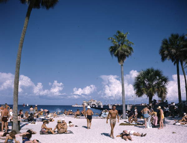 Persistent URL: Local call number: JJS0368 Title: Spa Beach in St. Petersburg, Florida Date: May 23, 1954 Physical descrip: 1 transparency - col. - 4 x 5 in.